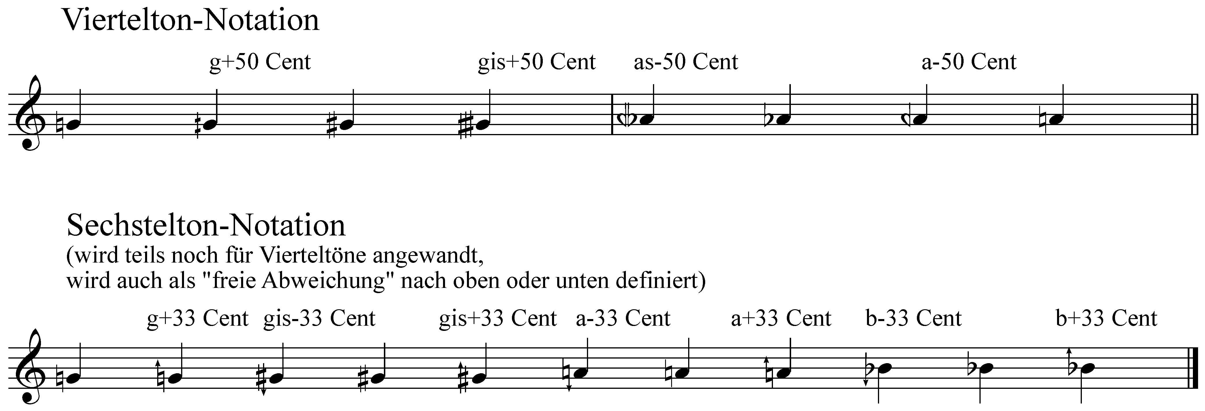 Microtonal signs for musical scores (24 equal temperament & 36 equal temperament). The main commonly used signs for microtones are represented.